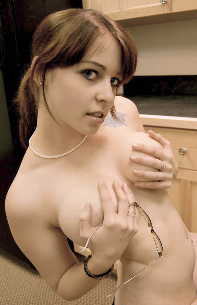 Pretty Polkadots. Girl from SuicideGirls.